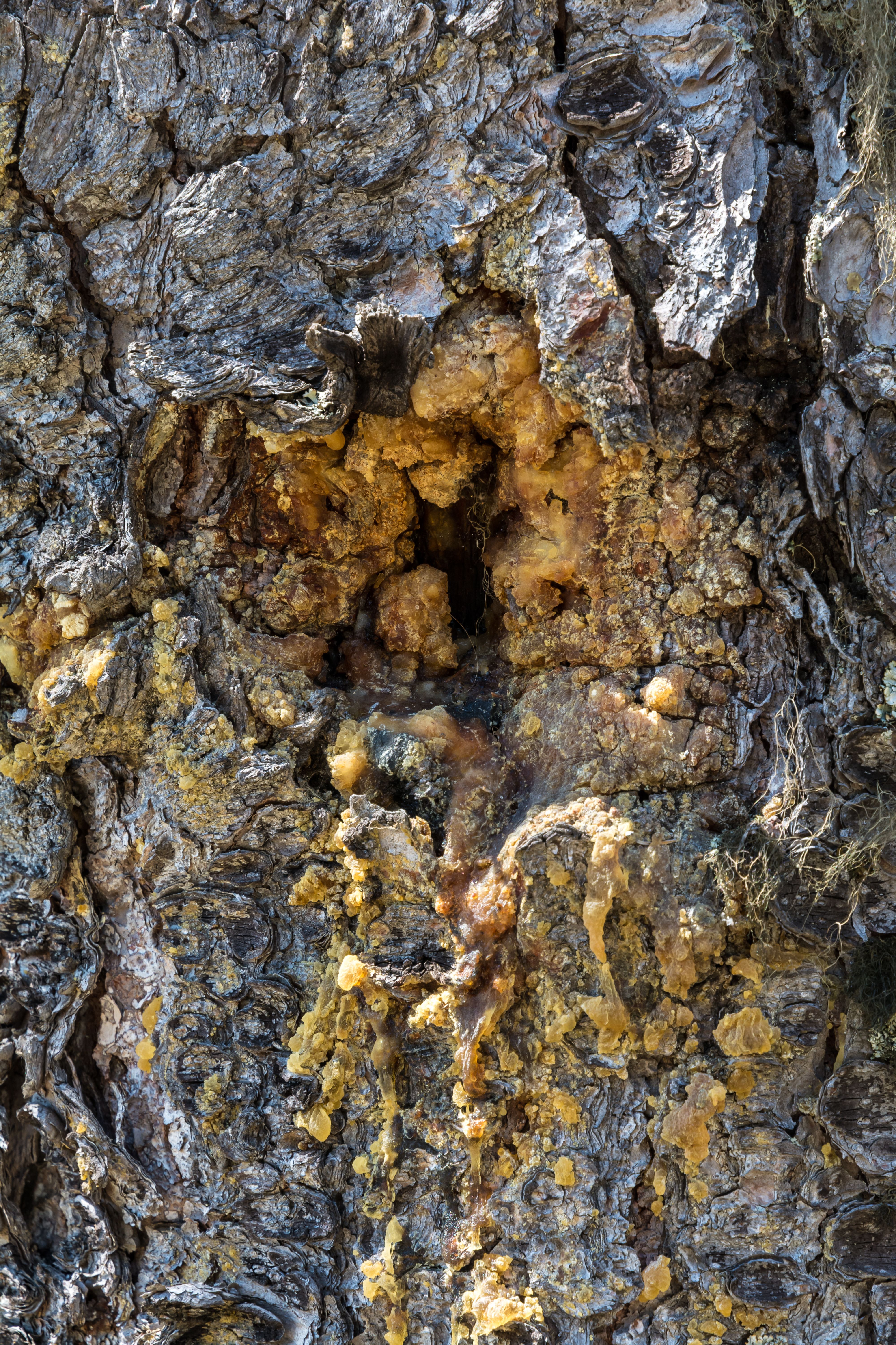 Bark and resin of European larch (Larix decidua)